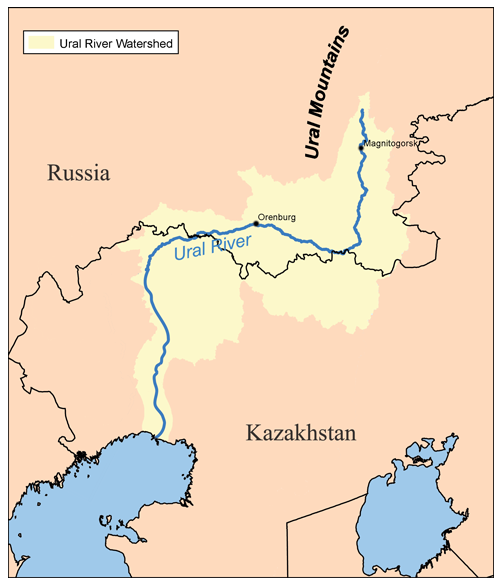 This is a map of the Ural River Watershed. I, Karl Musser, created it based on USGS data.